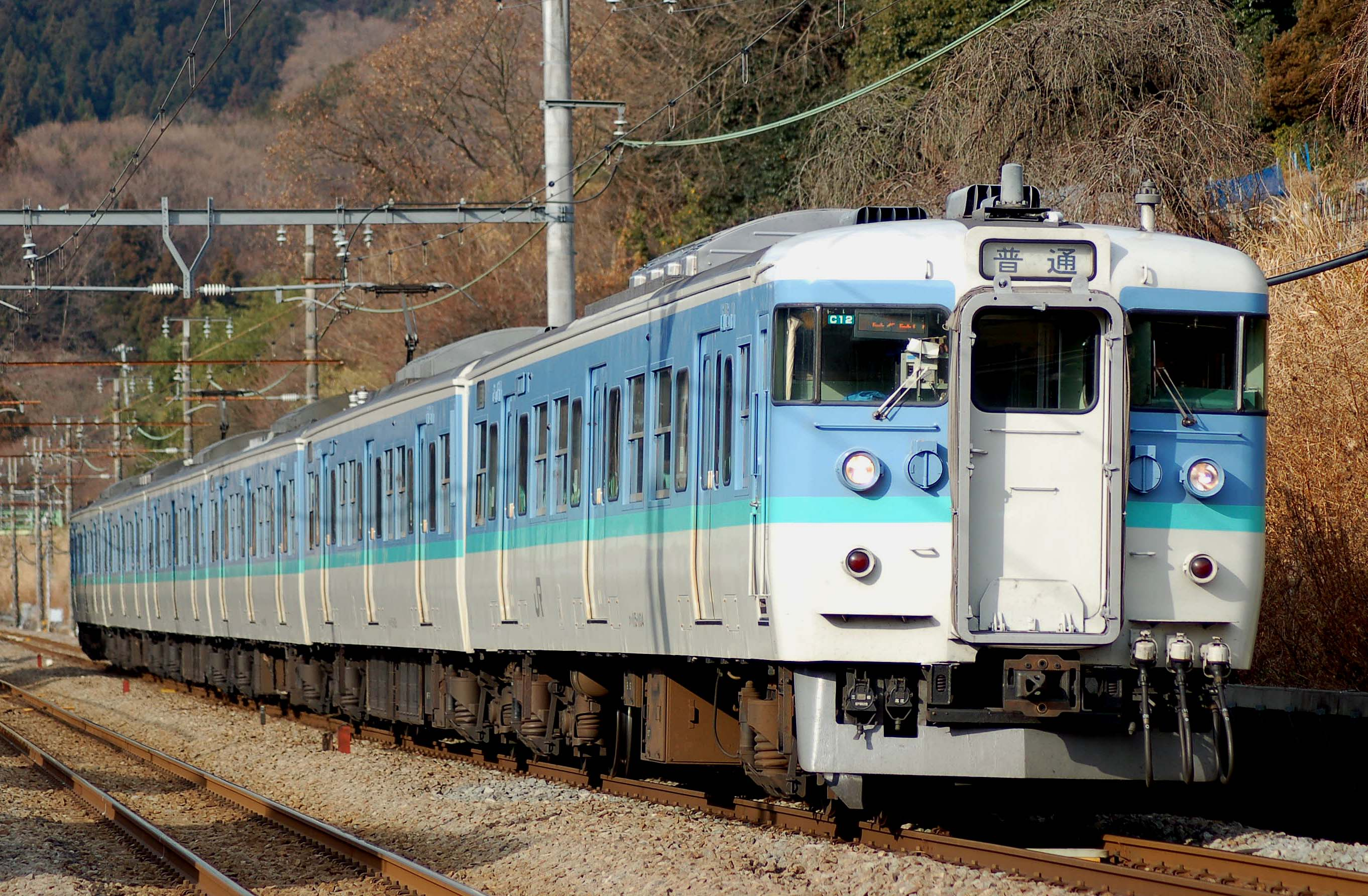 A JR East 115 series electric multiple unit on the Chuo Main Line in "New Nagano livery"